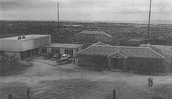 KSAR(Voice of Ryukyu) Building